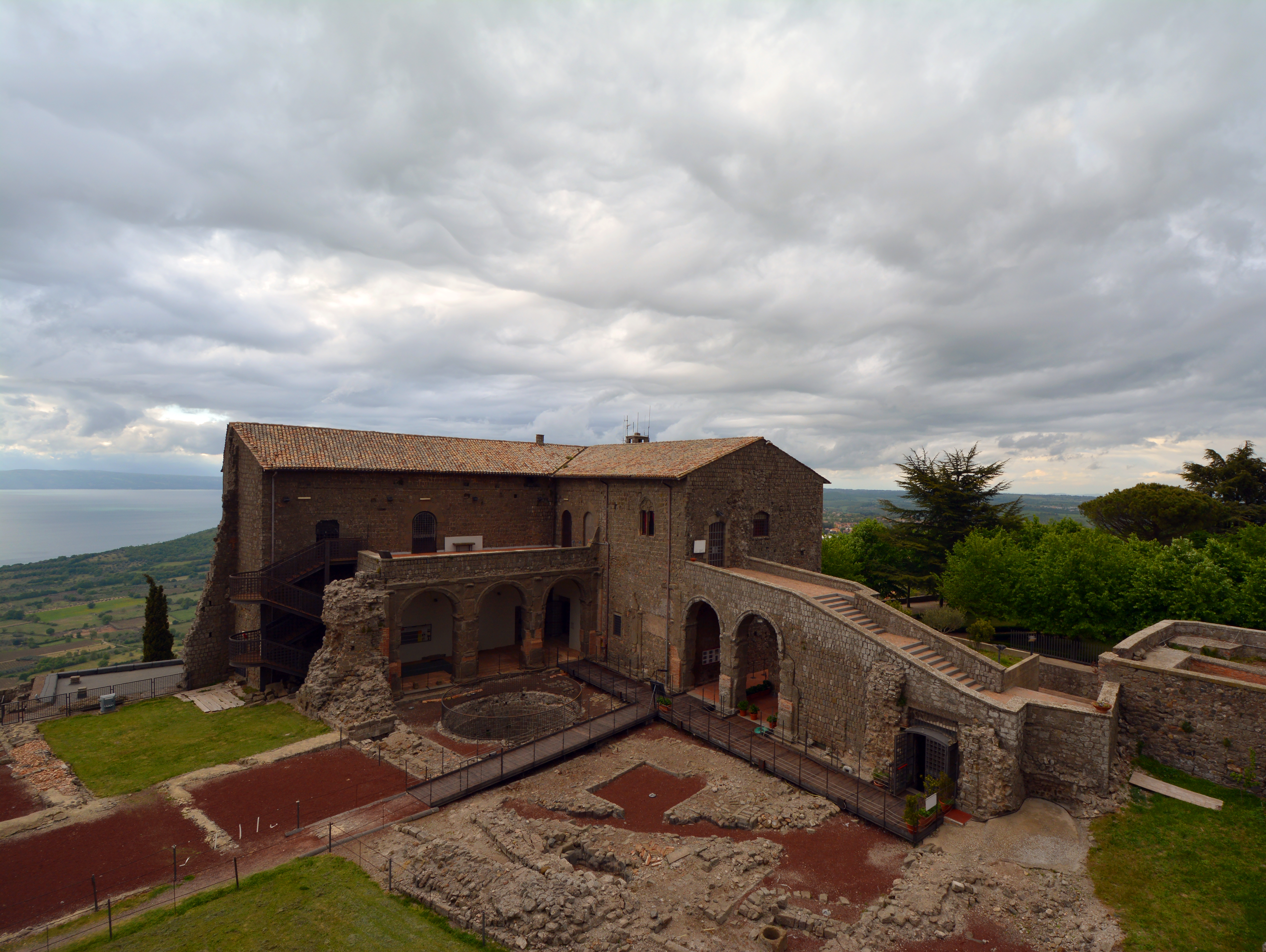 Rocca dei Papi (Montefiascone)